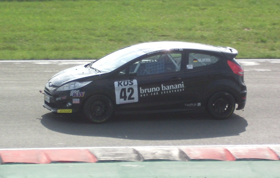 Championship: ADAC Procar; Racetrack: Motorsportarena Oschersleben; Driver: Ralf Glatzel (Germany); Team: Glatzel Racing; Car: Ford Fiesta 1,6 16V; Point: Sunday morning, first race